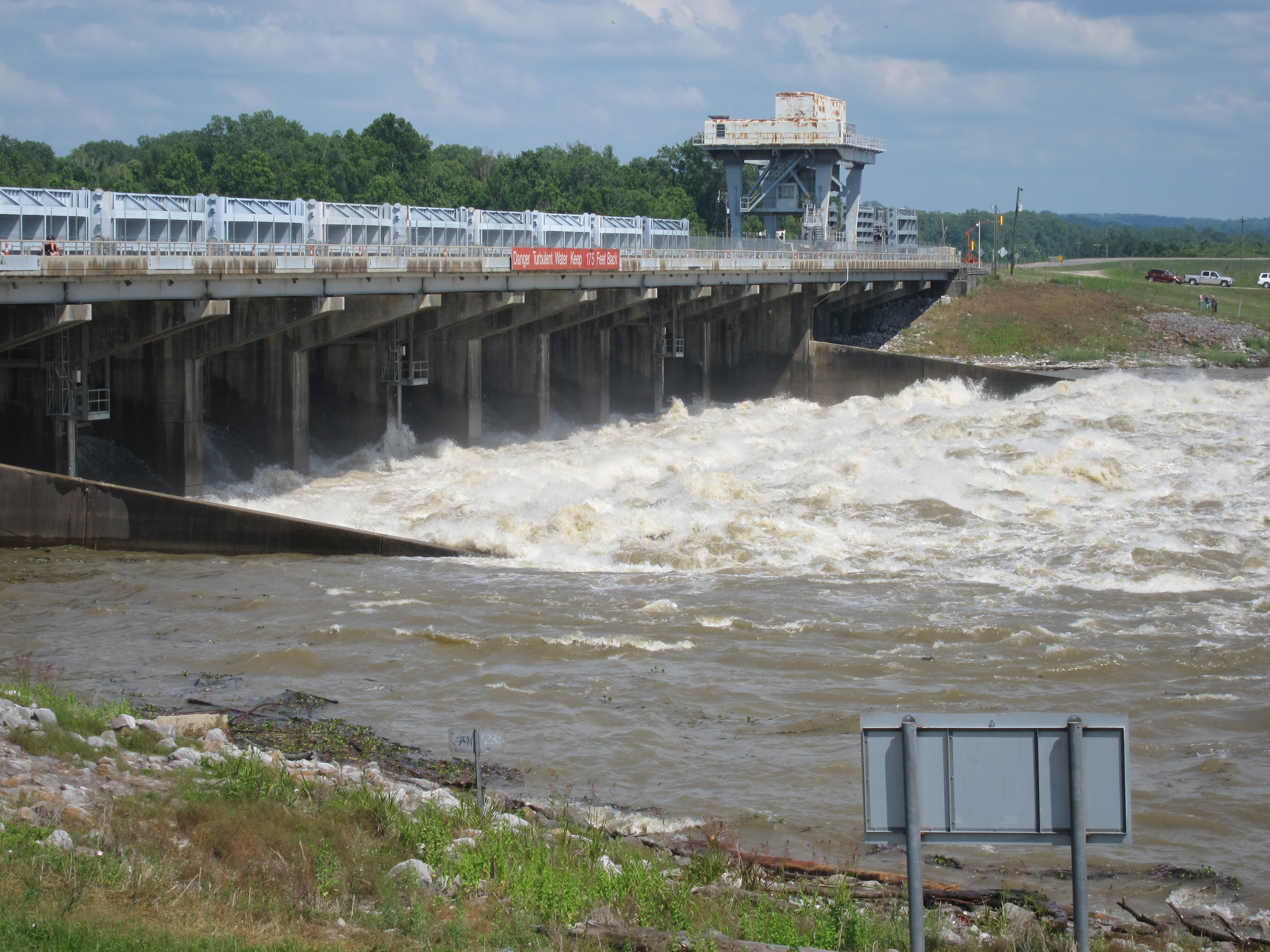 Mississippi River water discharge into the Atchafalaya, Old River Control Structure, Louisiana.